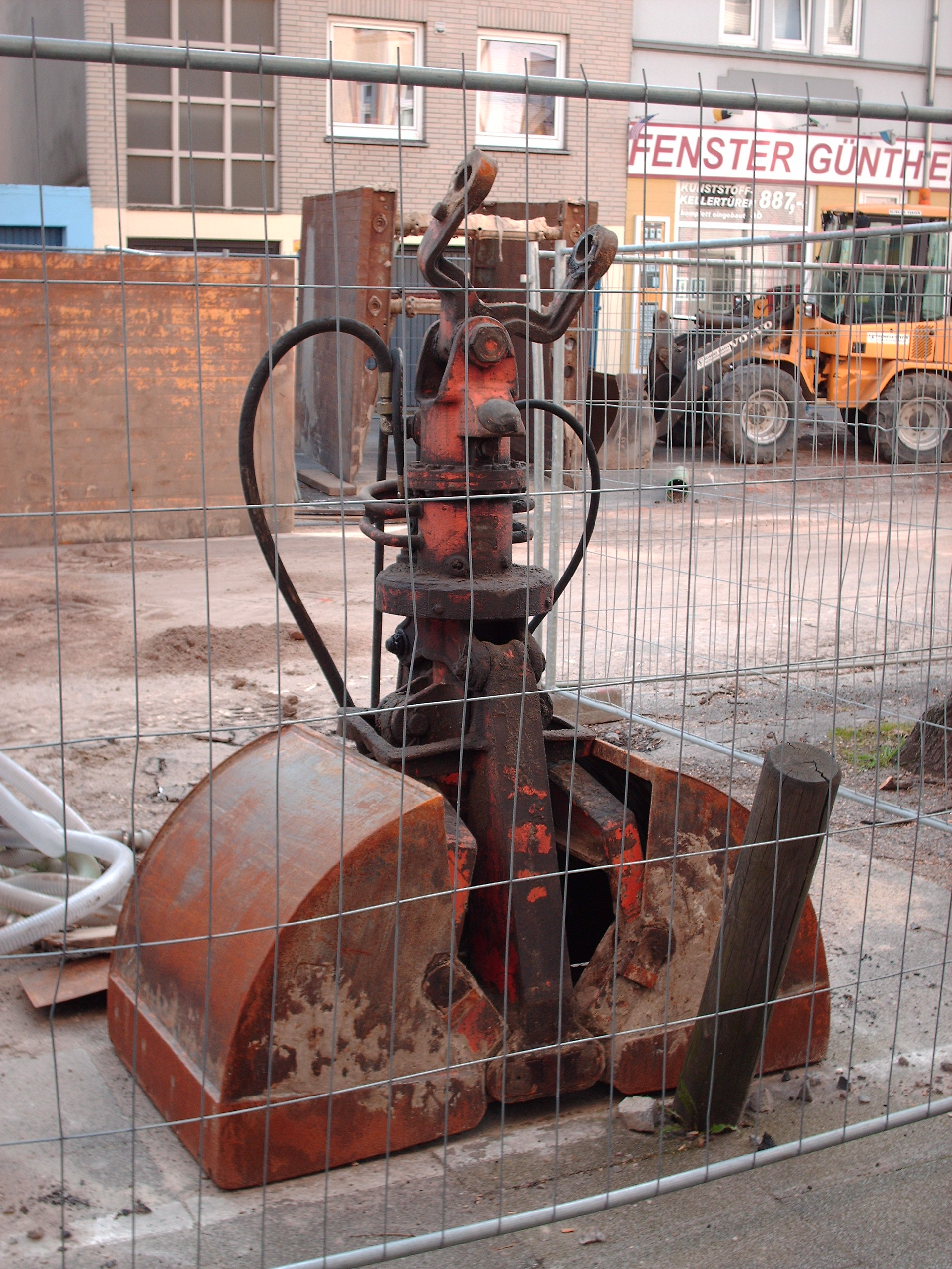 A German construction site. Foreground: a clamshell bucket, which fits on hydraulic excavators.